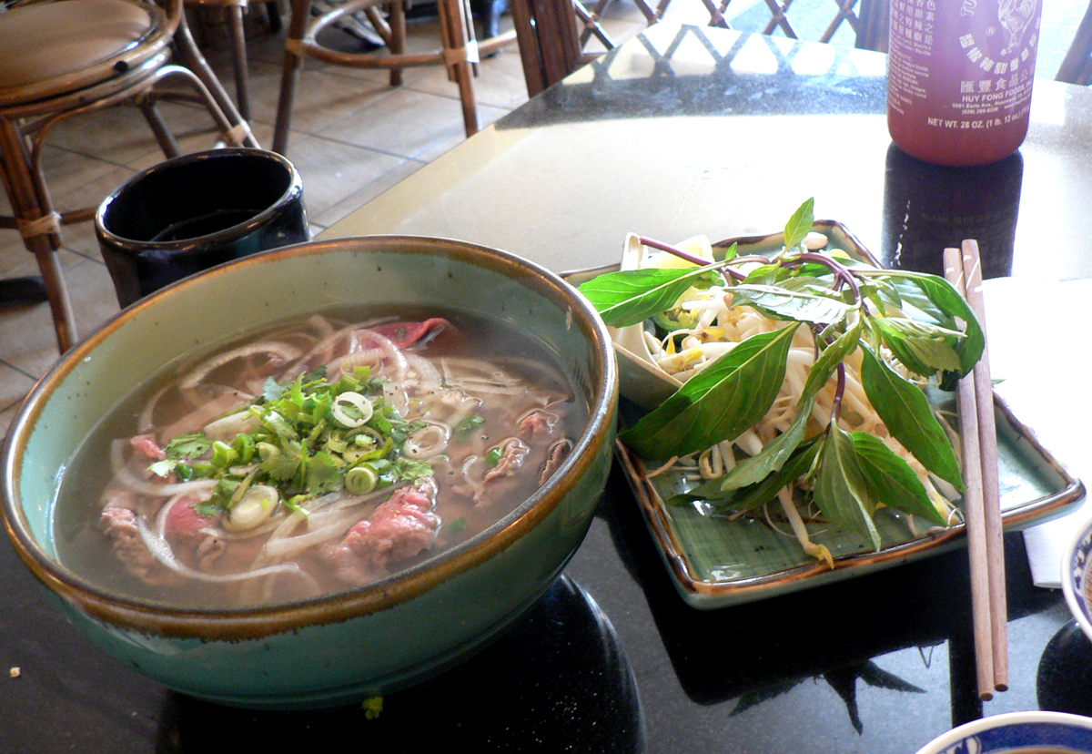 The green leaf in the International District. It's the best vietnamese we've found to date and the people who work there are really friendly.